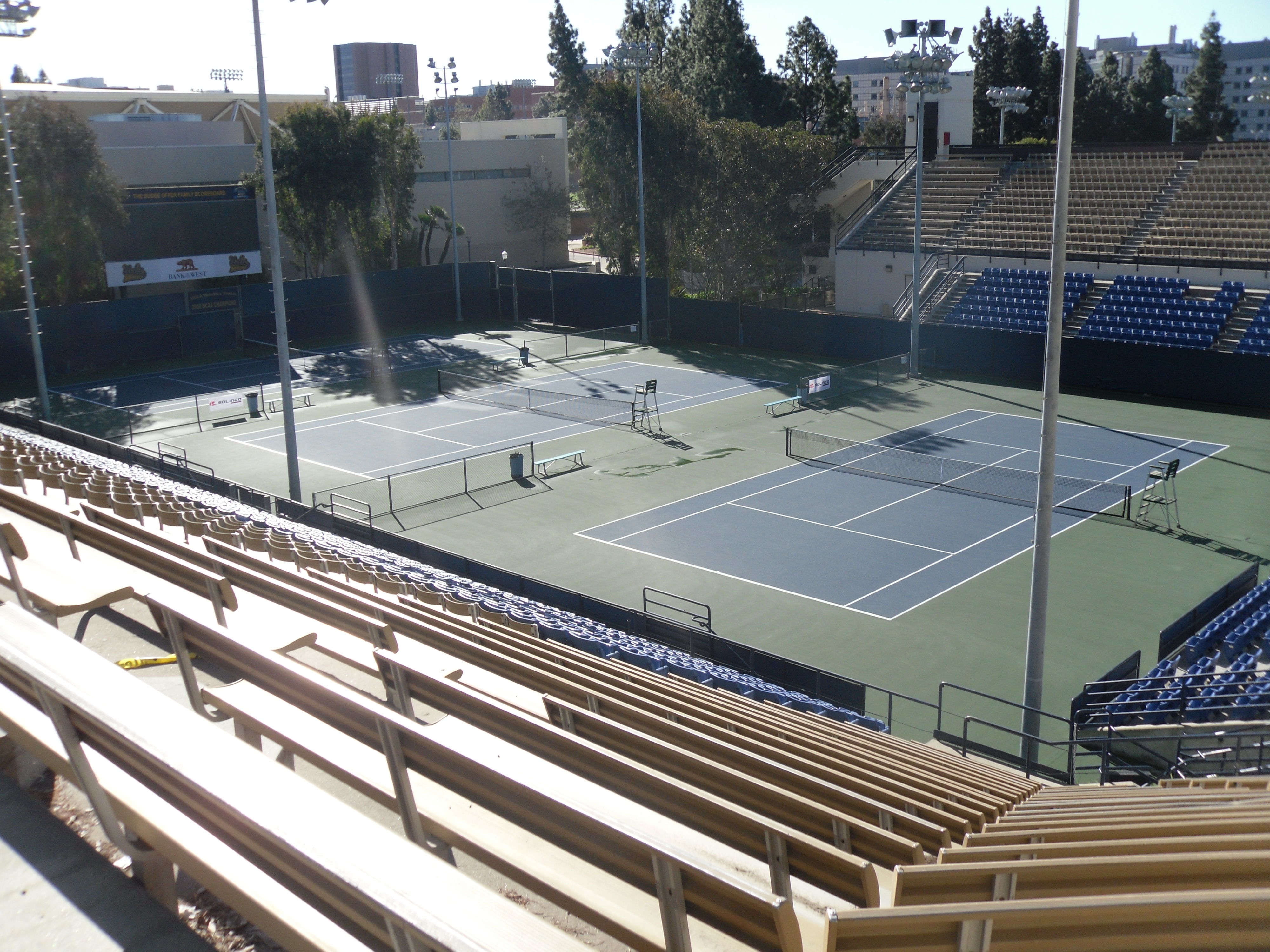 The tennis courts built for the Los Angeles Olympics located on the UCLA campus.